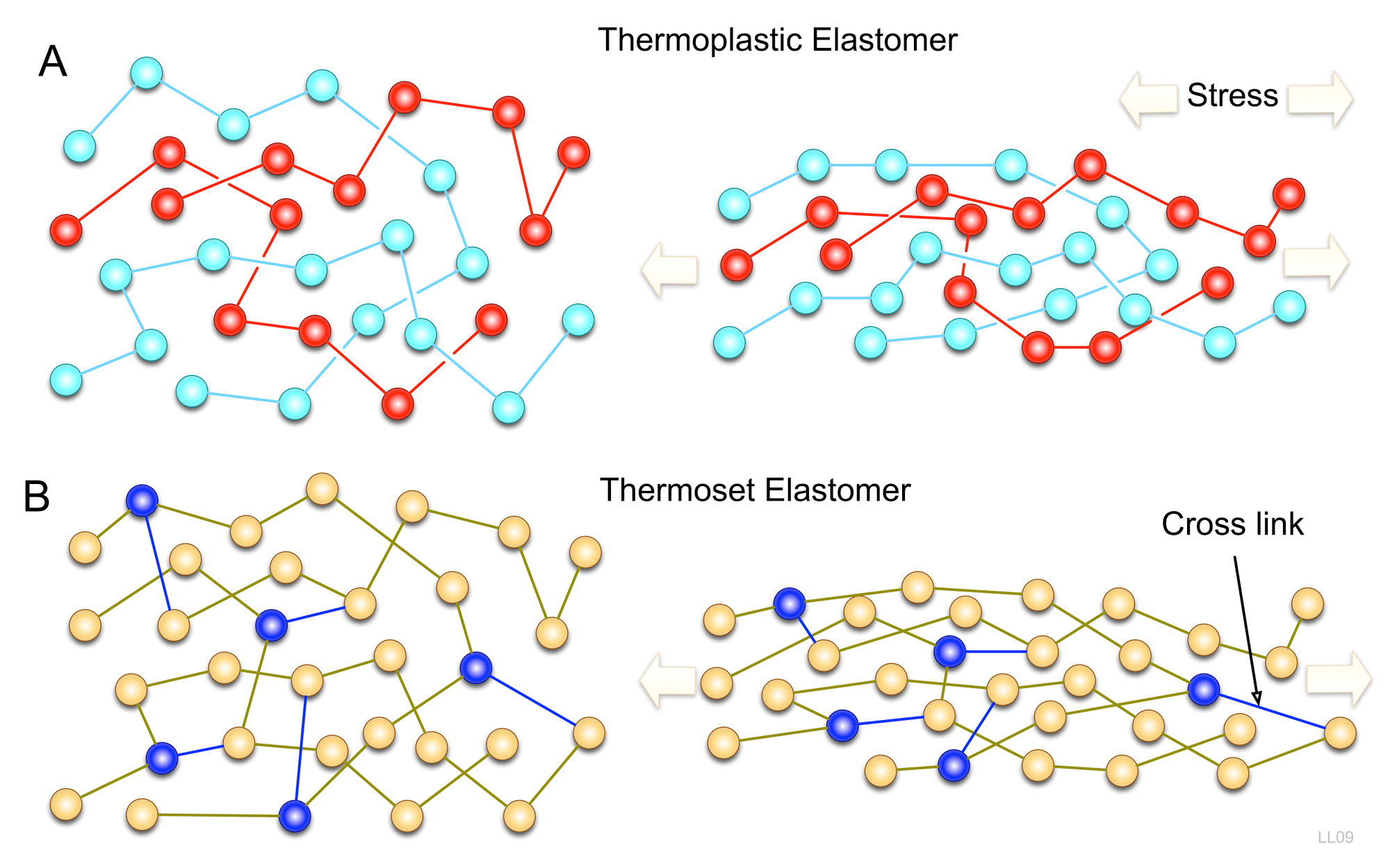 Artistic impression of the difference between a thermo-set and a thermo-plastic elastomere. // Visualisatie van het verschil tussen een thermo-plastisch en een thermo-set elastomeer.